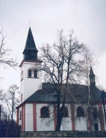 St Nicholas church in Všebořice (part of Ústí nad Labem city, Czech Republic).